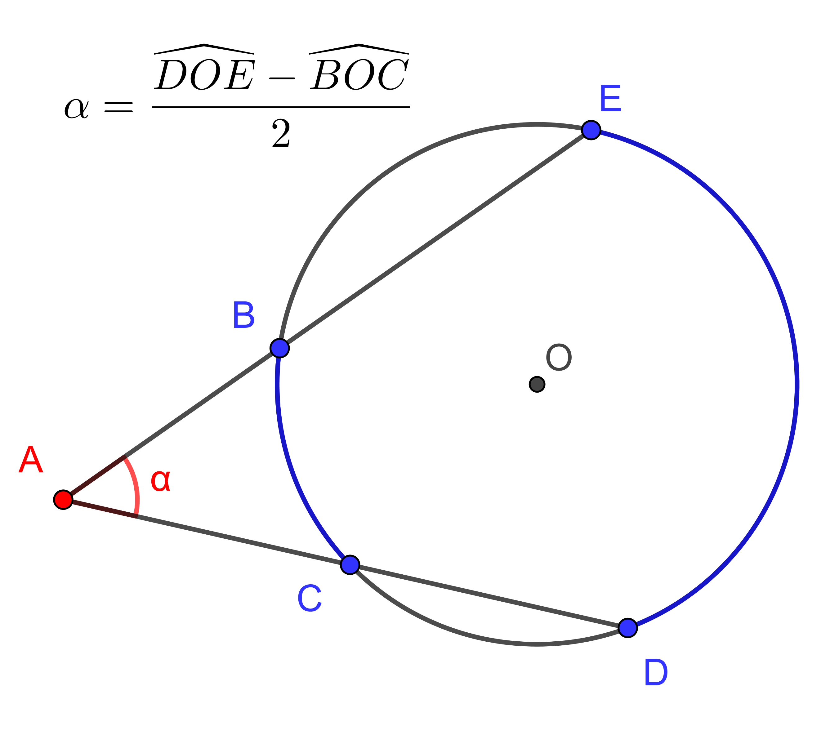 An image describes the secant-secant theorem which involves angles and circle